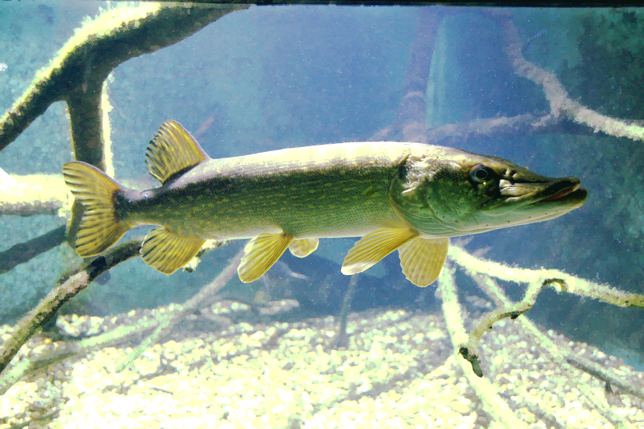 Northern Pike (Esox lucius), Haus des Meeres (Public Aquarium), Vienna